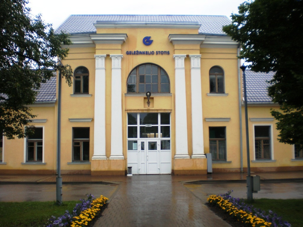 The train station of Kėdainiai